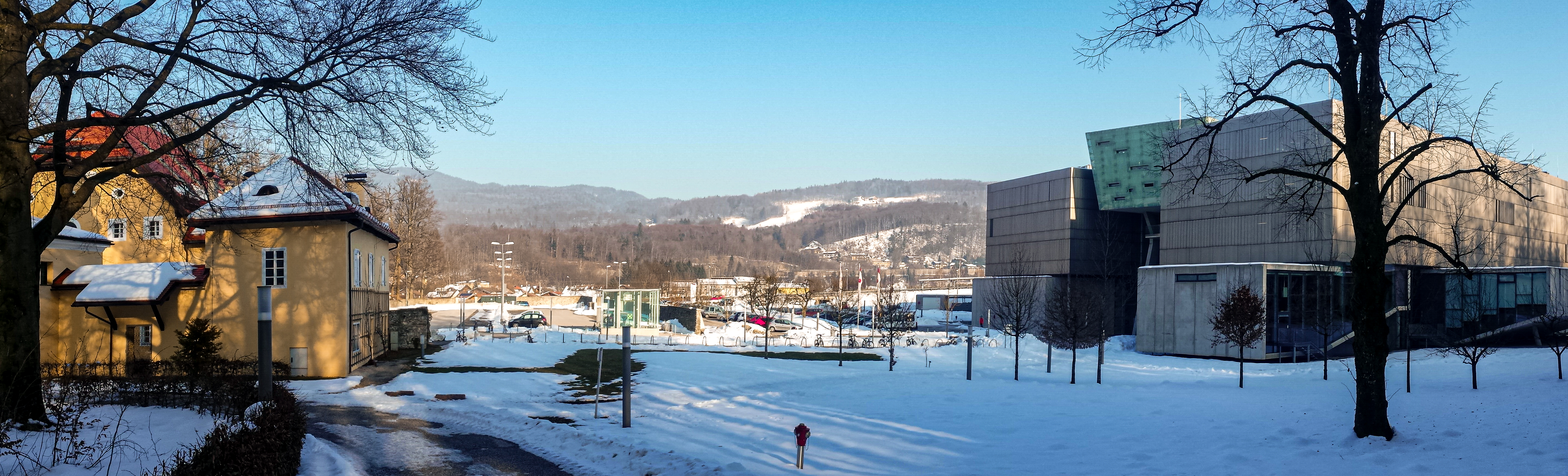 to the right the campus, to the left the belonging estate "Meierei"